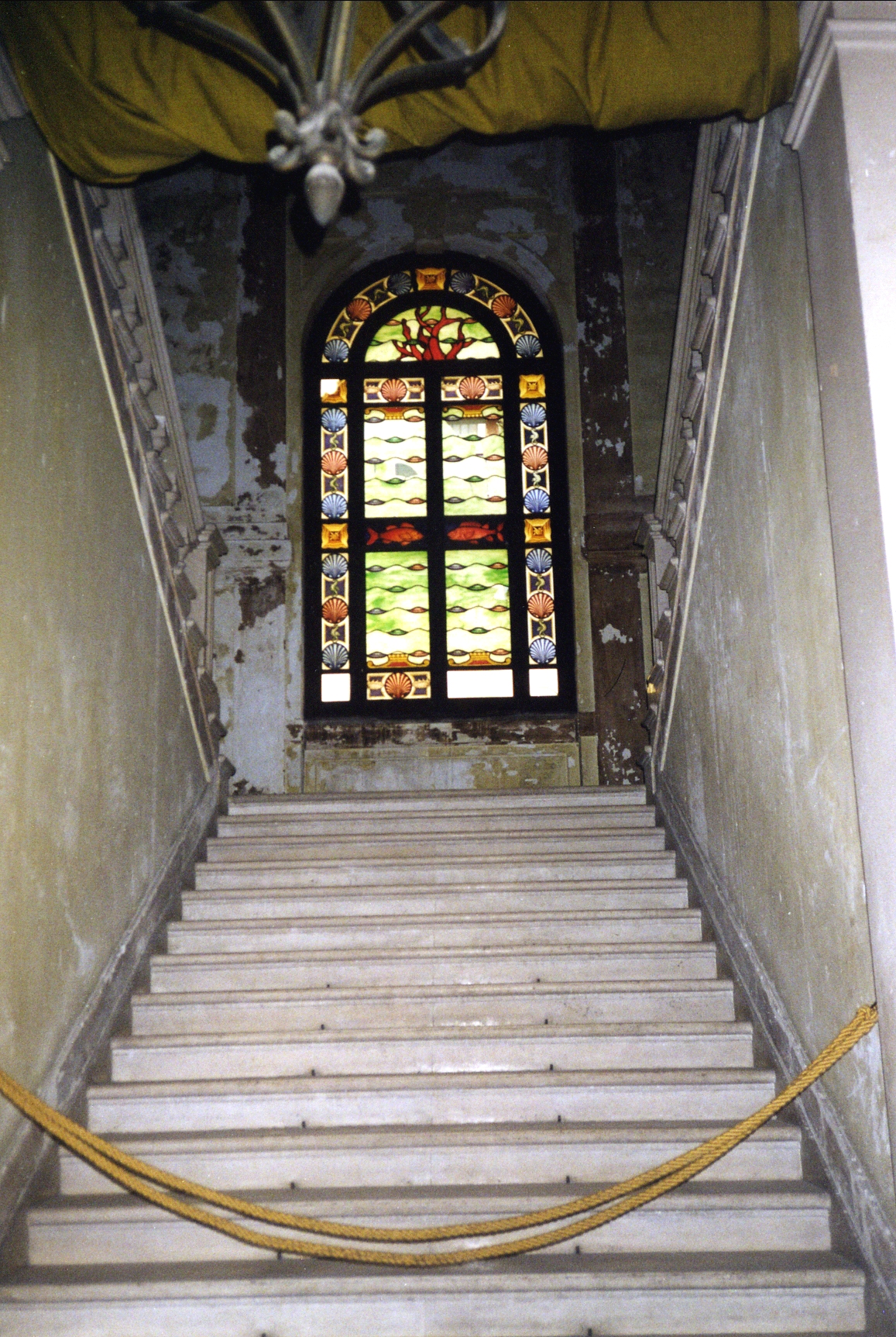 Staircase with painted window — Oceanographic institute Istituto Sperimentale Talassografico Attilio Cerruti of Taranto in Italy.